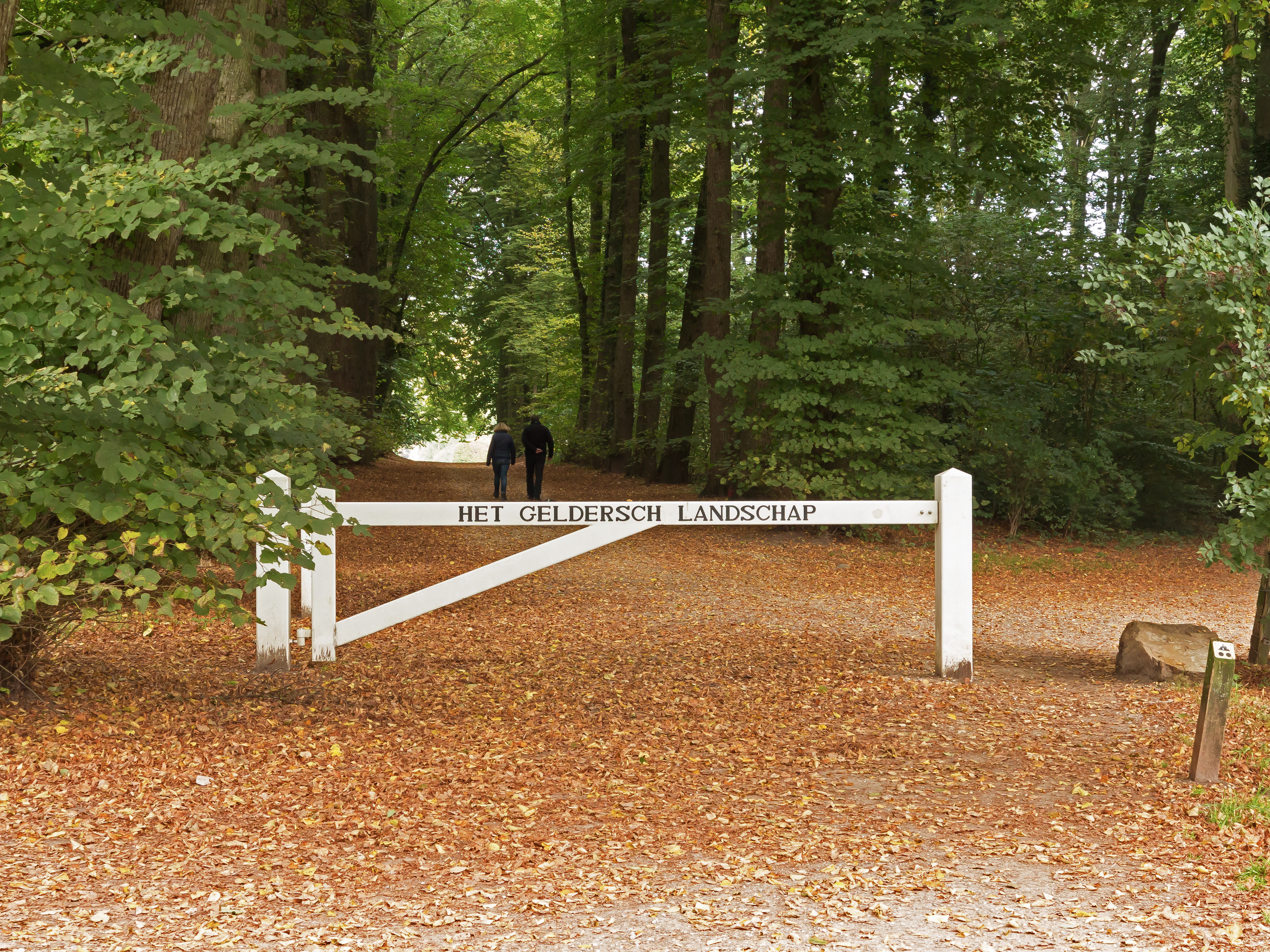 Arnhem-Mariëndaal, entry area Geldersch Landschap